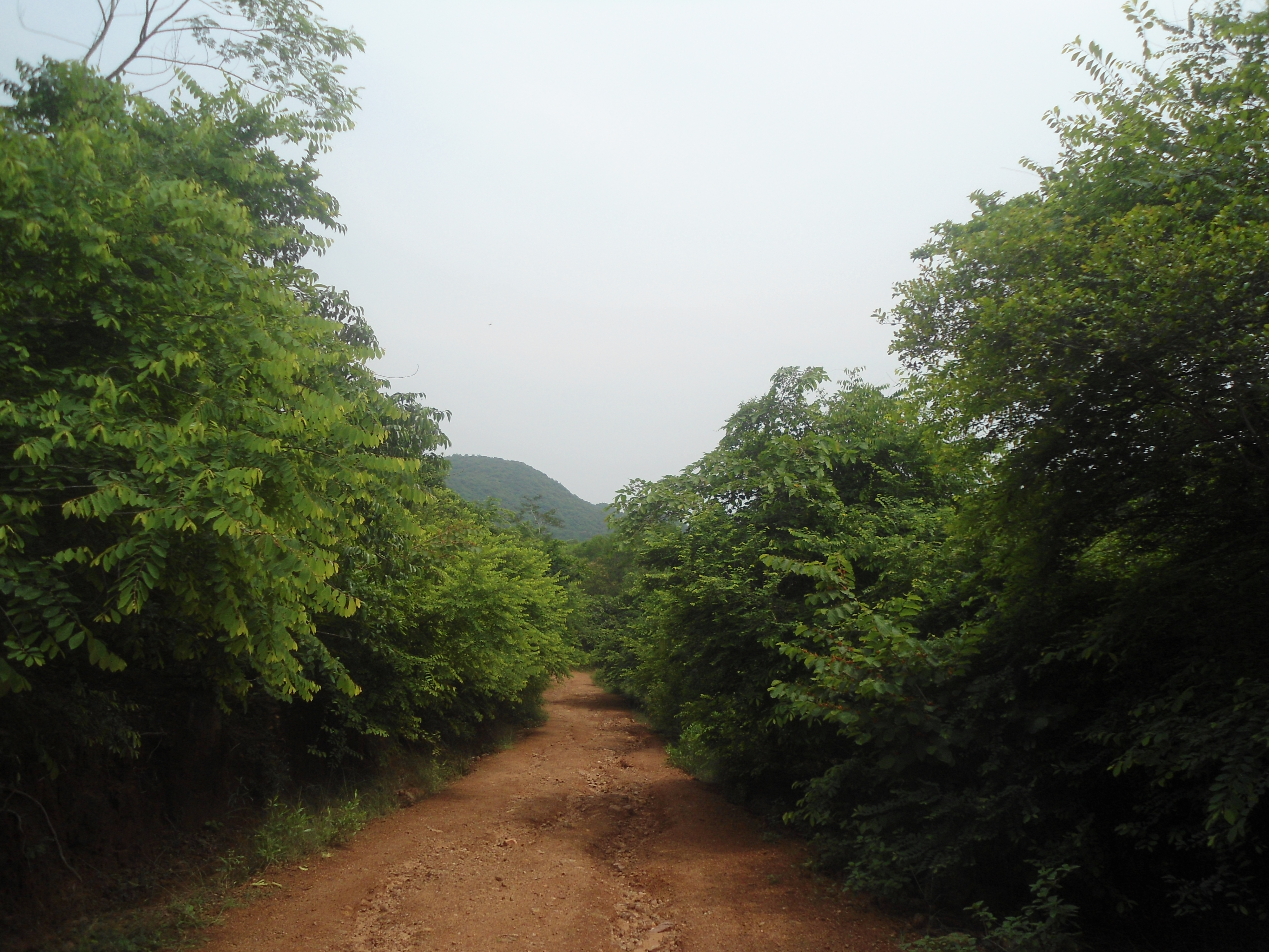 walkway at Kambalakonda Eco Park in Visakhapatnam